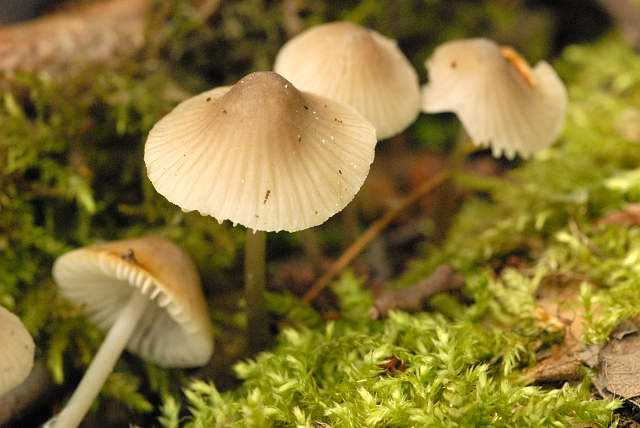 Mycena spec. from Commanster, Belgian High Ardennes. The determination of the species shown in this picture has been verified.